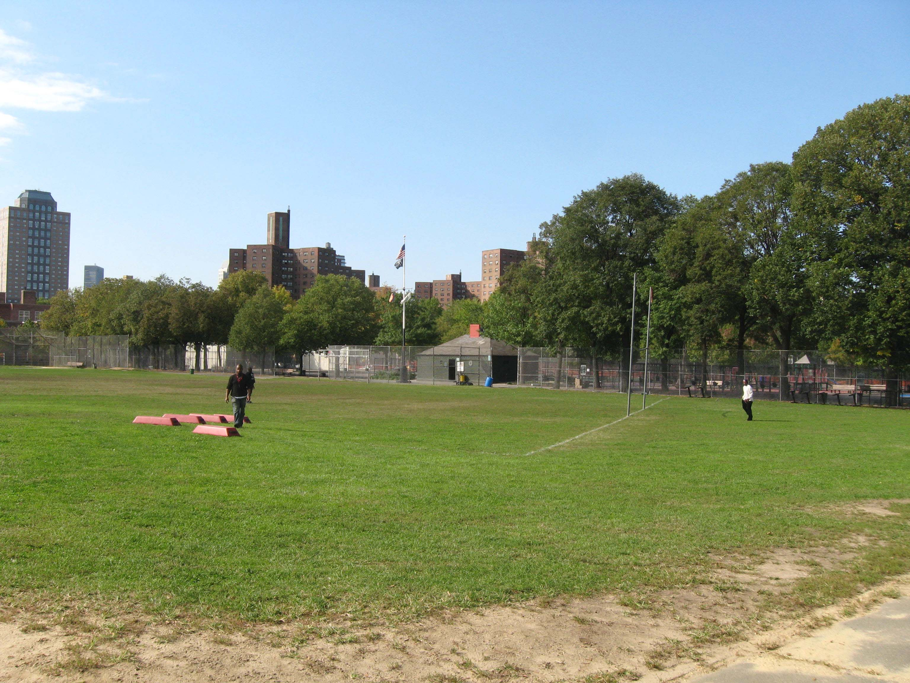 Looking northwest on a sunny midday in Commodore Barry Park, WTM goal #J28 This photo is of Wikis Take Manhattan goal code J28, Commodore Barry Park.